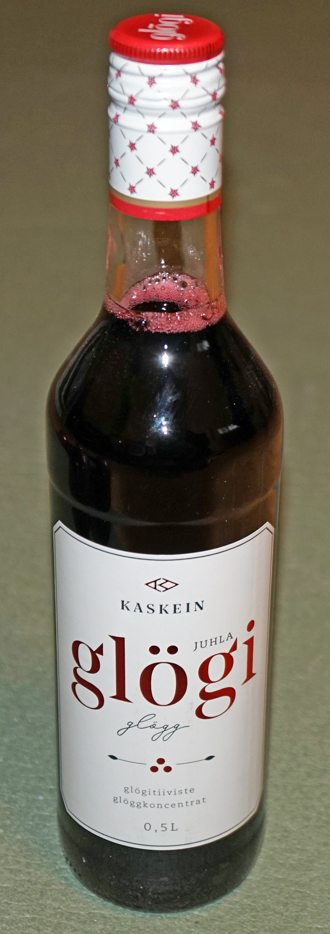 Glögg. 0.5 litres bottle.